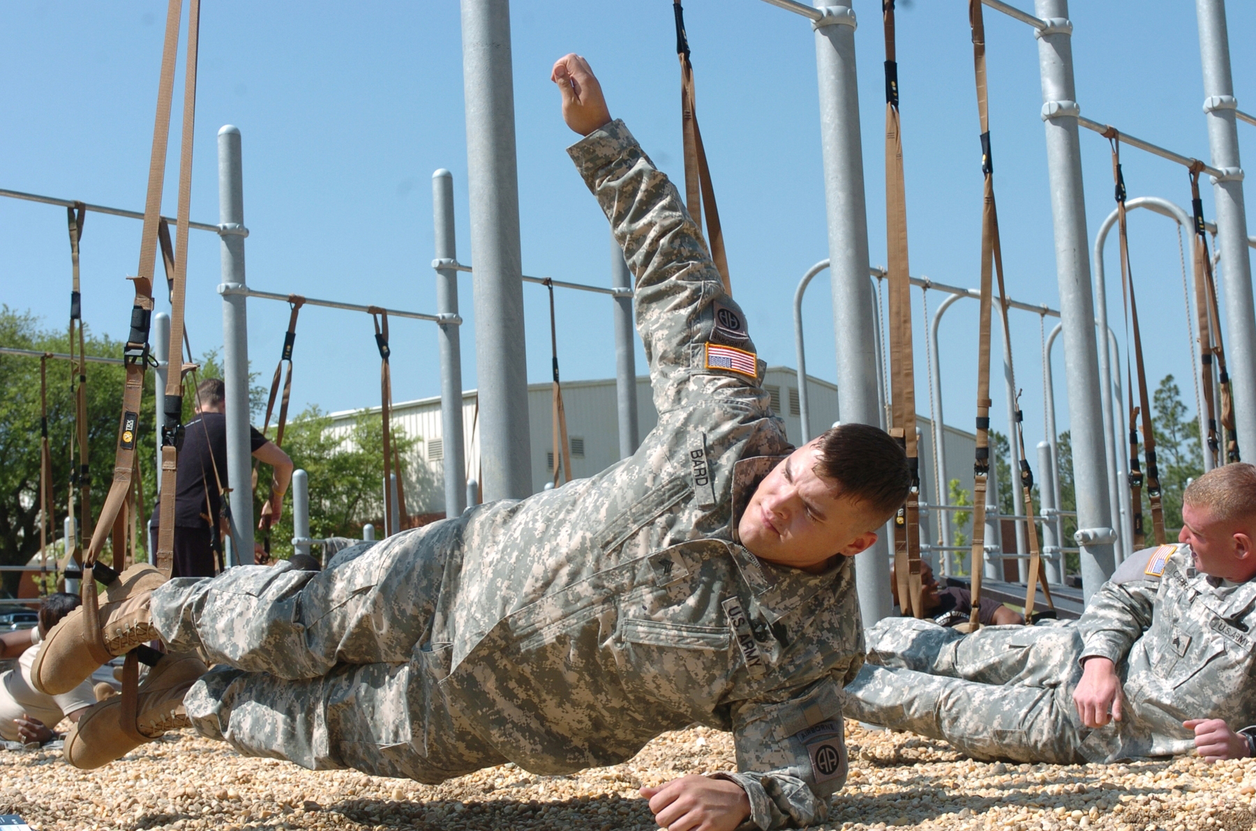 Picture of a modified plank exercise.